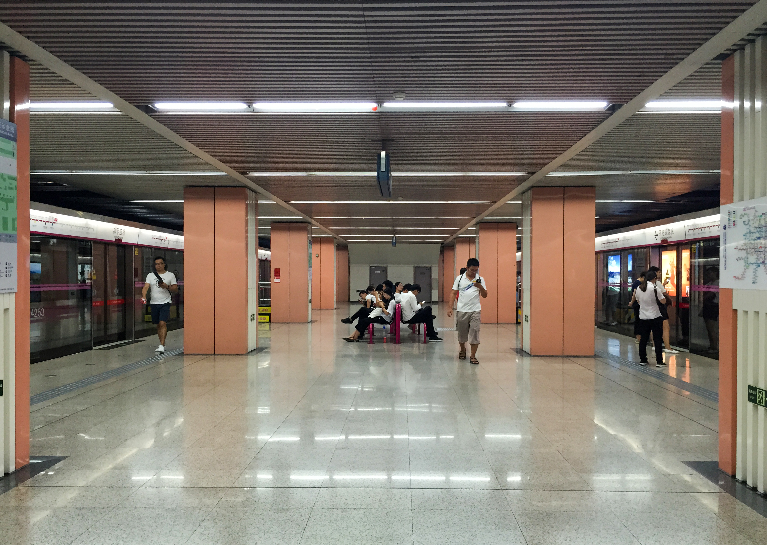 Many stations of Line 5 has their lifts linking paid area and unpaid area.